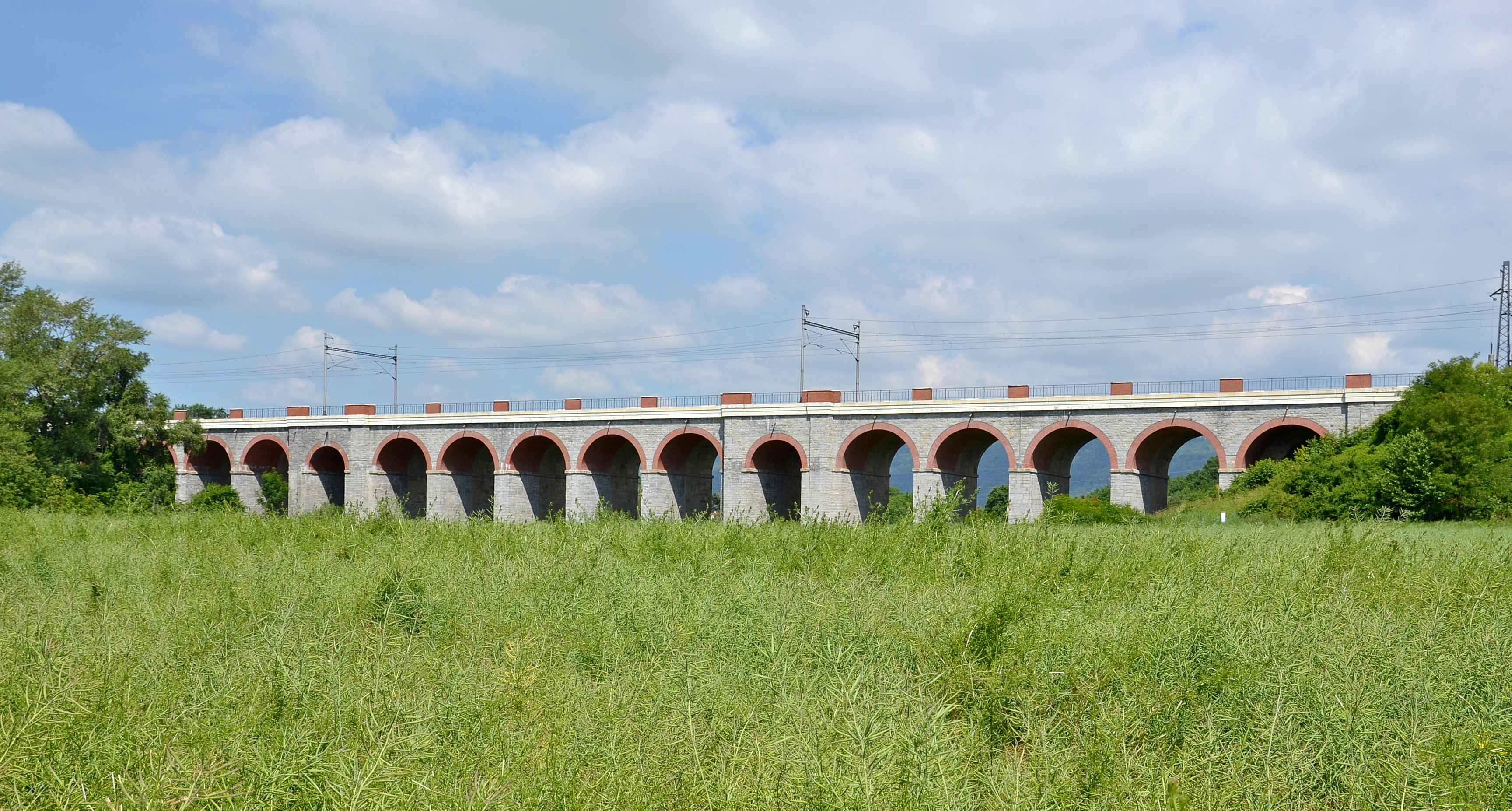 Railway viaduct in Jezernice, Czech Republic